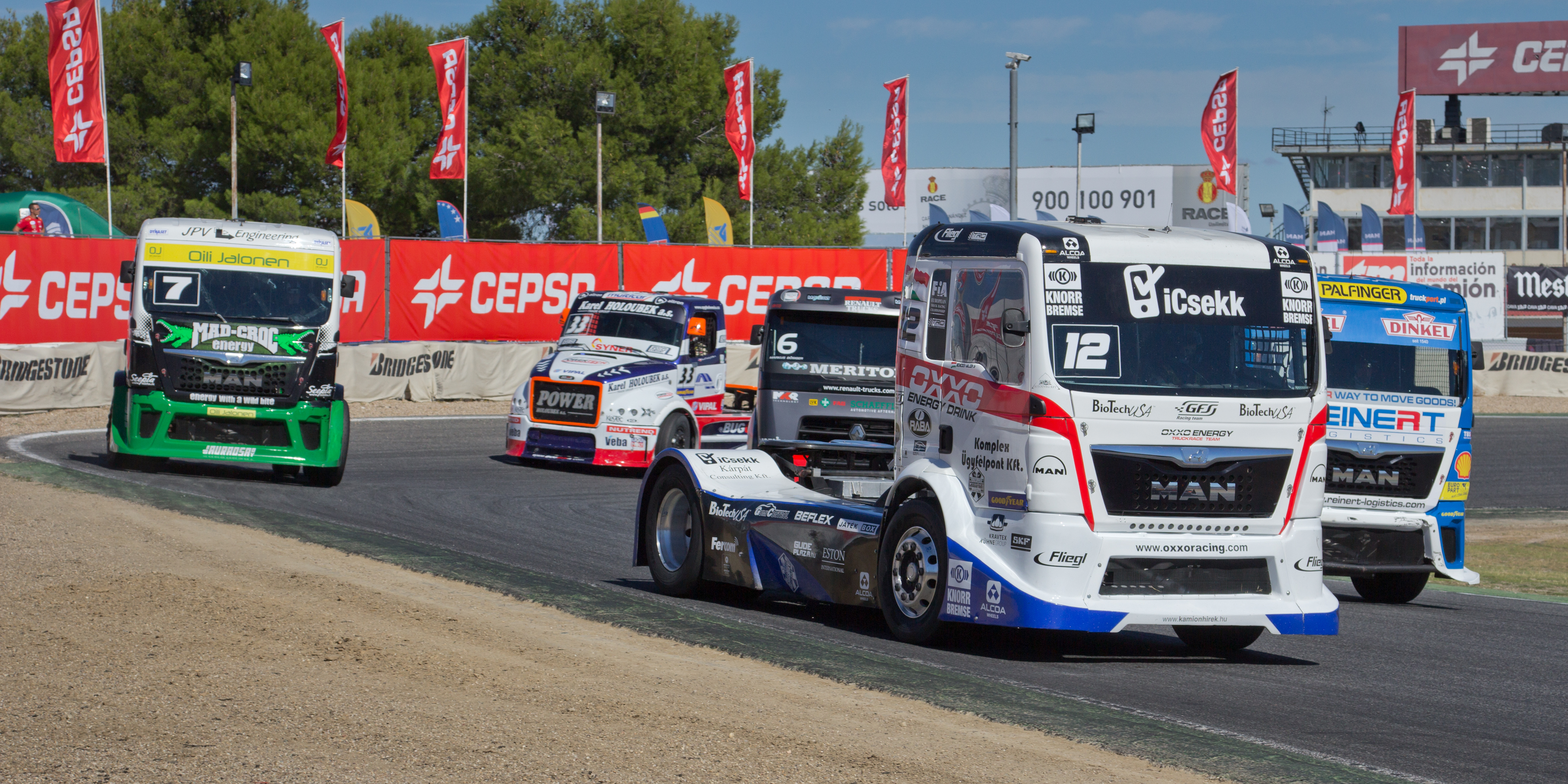 Spain Truck GP 2013, Jarama Circuit.